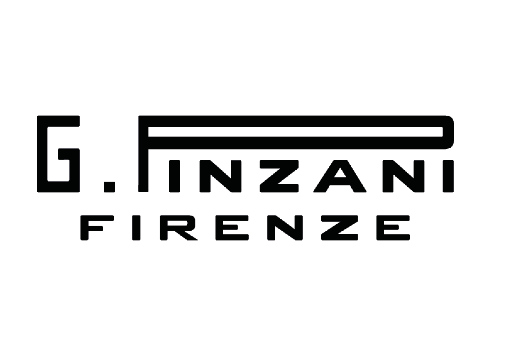 Logo G.Pinzani